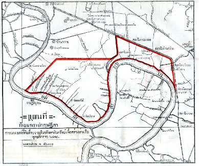 Map of Royal Decree determining land boundaries that will be expropriated to build a Bangkok port. Initially, this included almost all of the Yan Nawa District and was part of Bang Kho Laem District. Buddhist Era 2478 (1935)